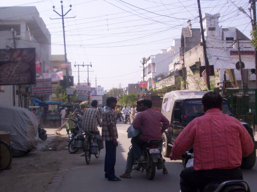 Pictures of Moradabad